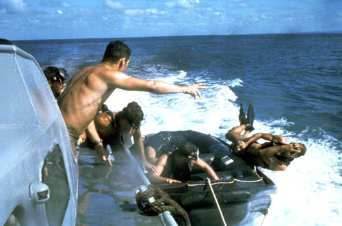 Official US Navy description [1] "A US Navy Sea-Air-Land (SEAL) team member enters the water from an inflatable boat while preparing for a stringline recovery operation. The raft is being towed by another boat." (DN-ST-88-02509)